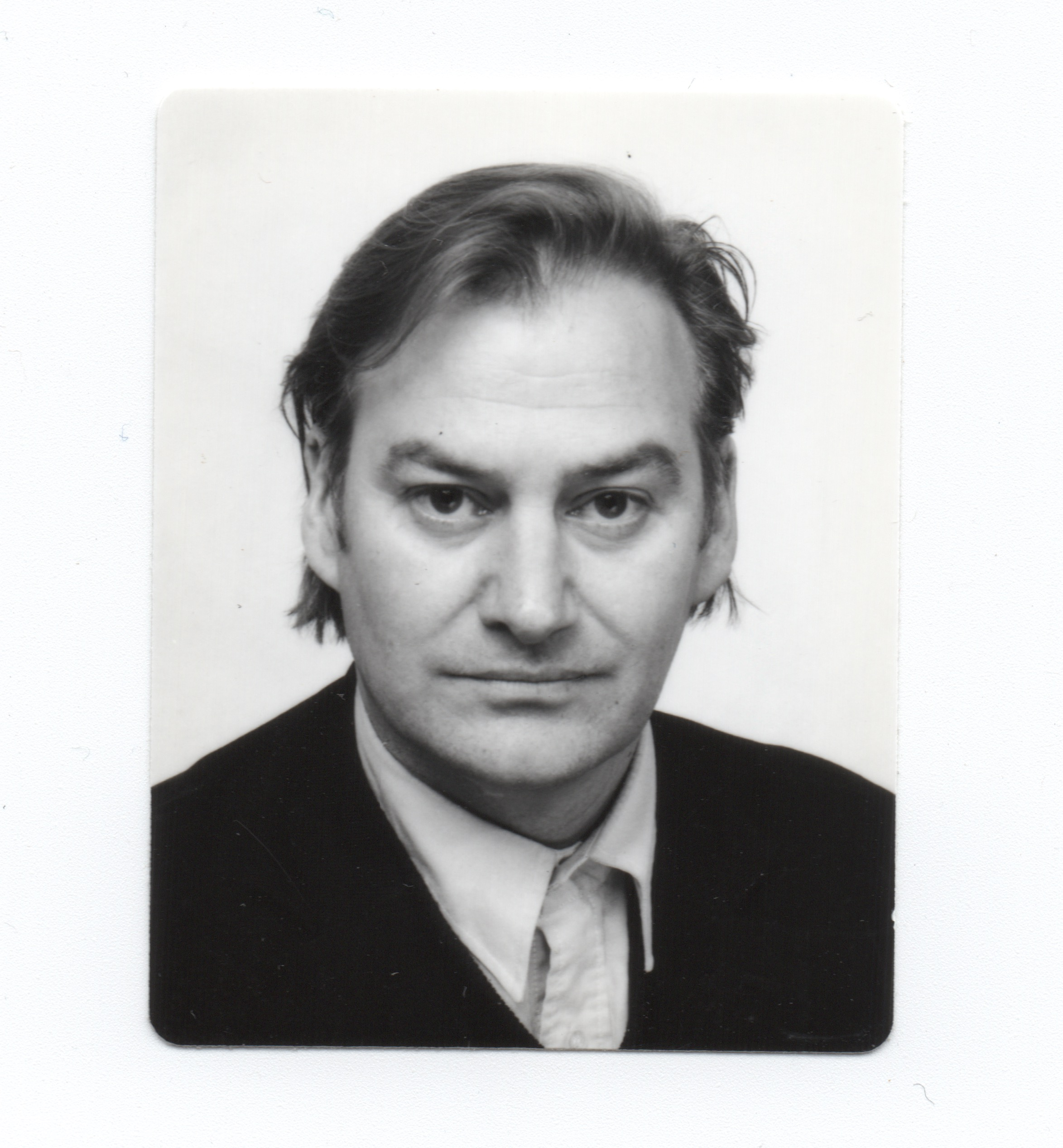 Photomat picture